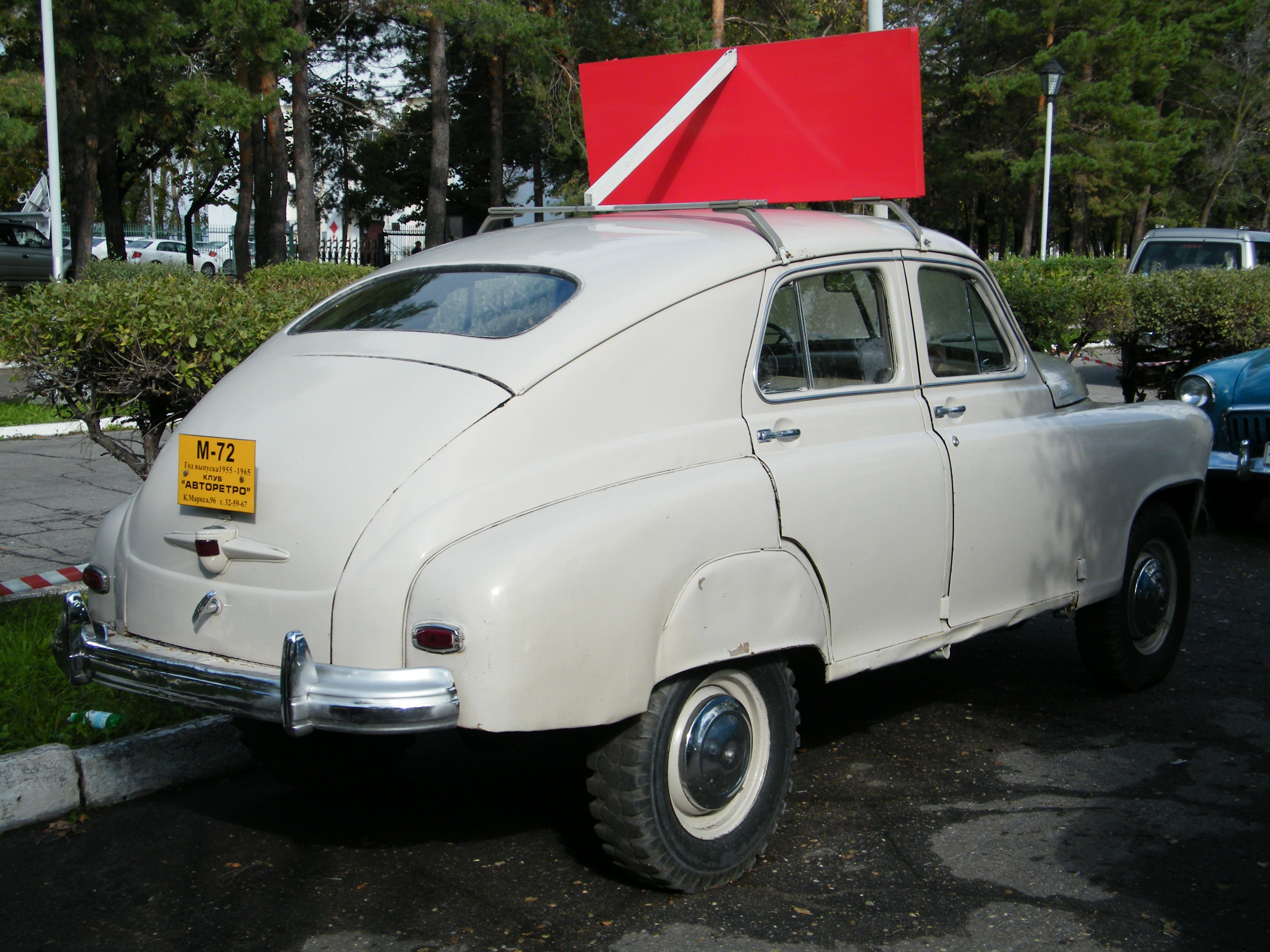 GAZ-M-72 (GAZ-M-20 4x4).